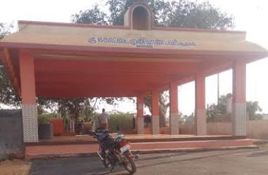 Vallam kottai muniandavar temple வல்லம் கோட்டை முனியாண்டவர் கோயில்